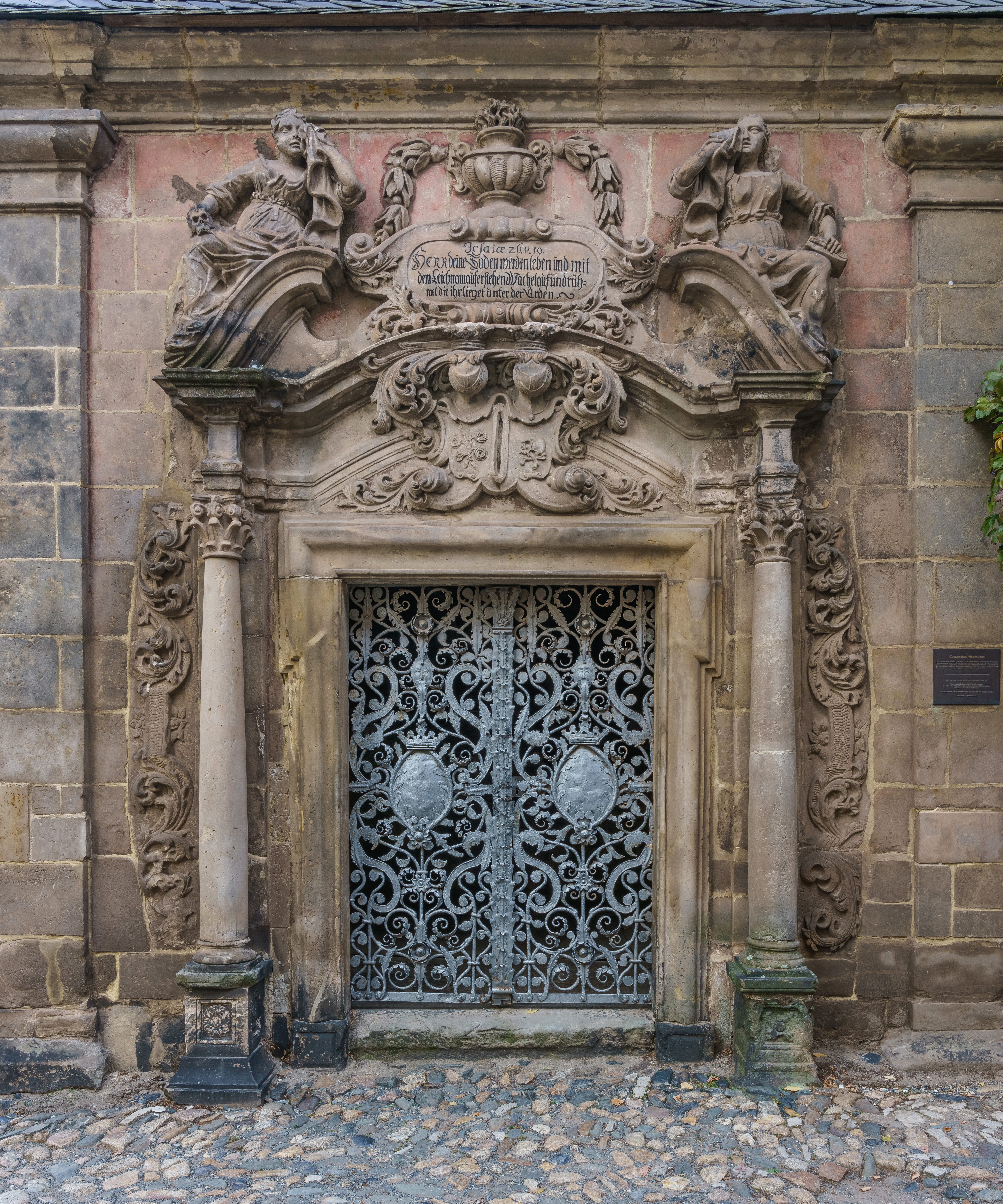 Baroque mausoleum in the Old Town in Quedlinburg, Germany